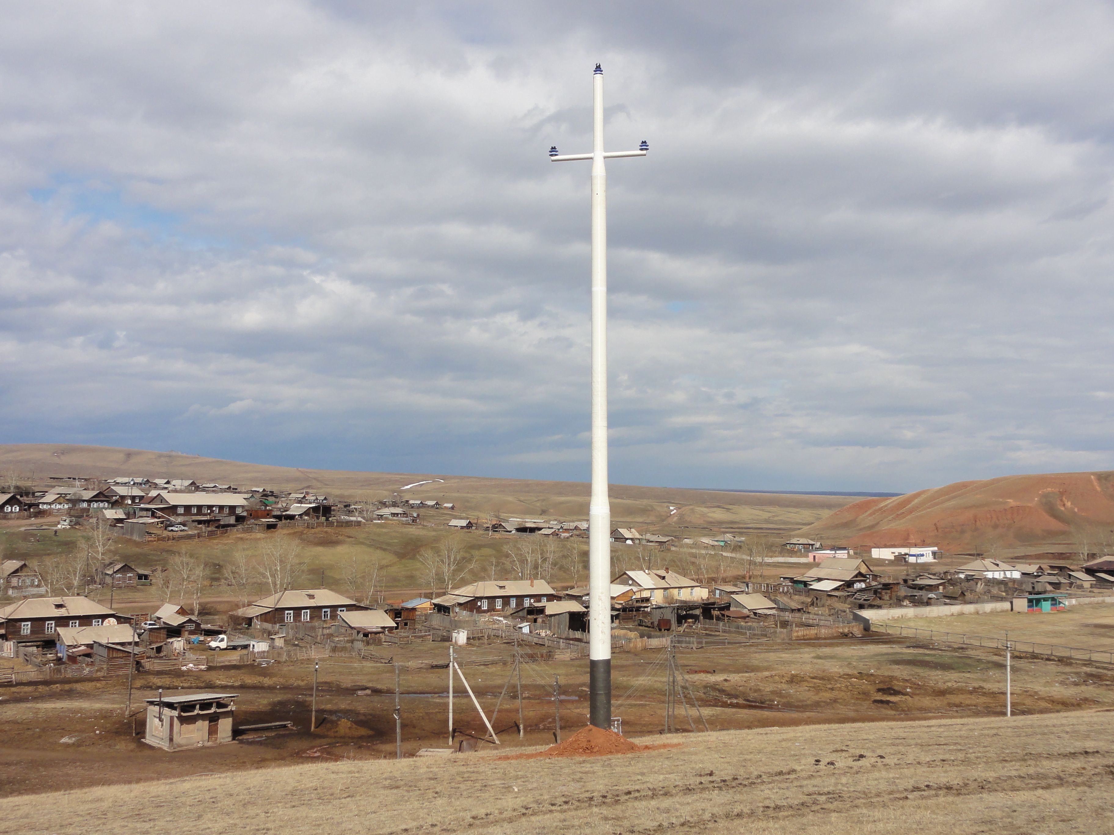 Reconstruction of power transmission lines Bahtay-Zakuley in the Irkutsk region. Outdated and worn wooden supports are replaced with modern composite material (fiberglass)